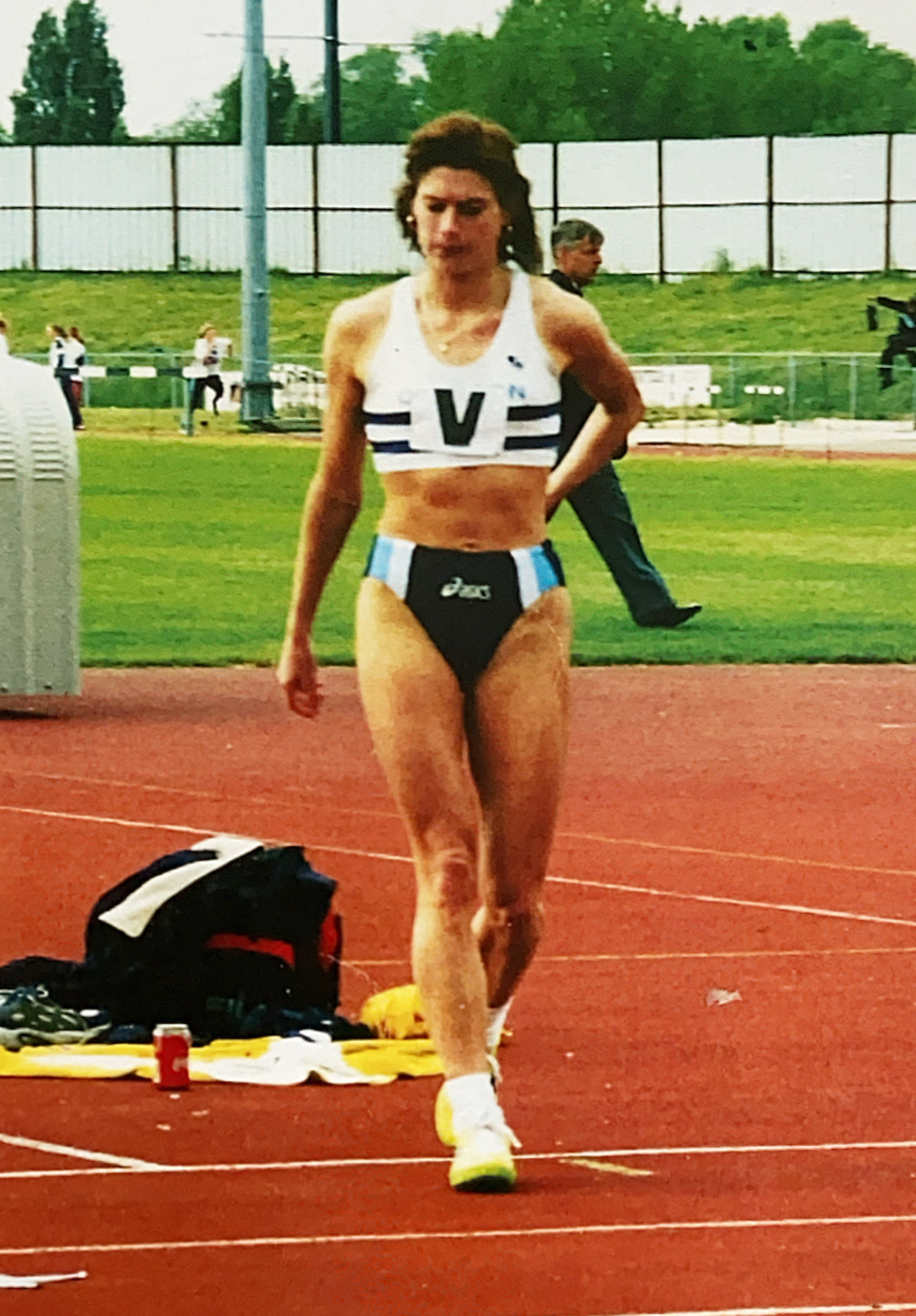 Lea Haggett competing for Herne Hill Harriers in late 1980s